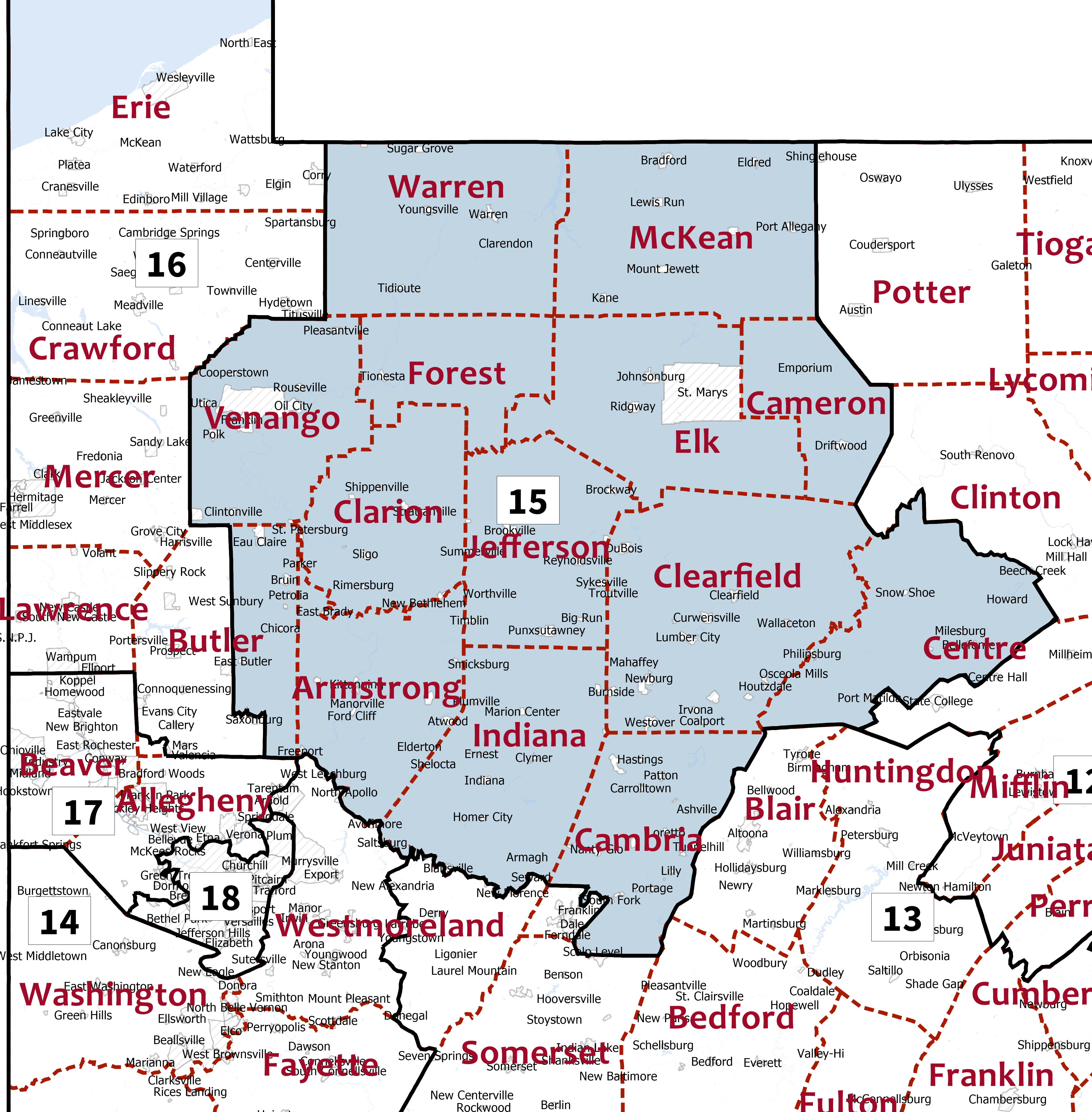 Pennsylvania congressional district 15